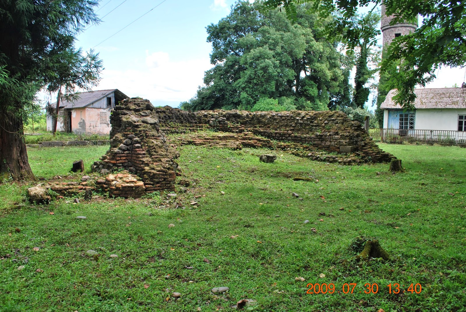 Vashnari